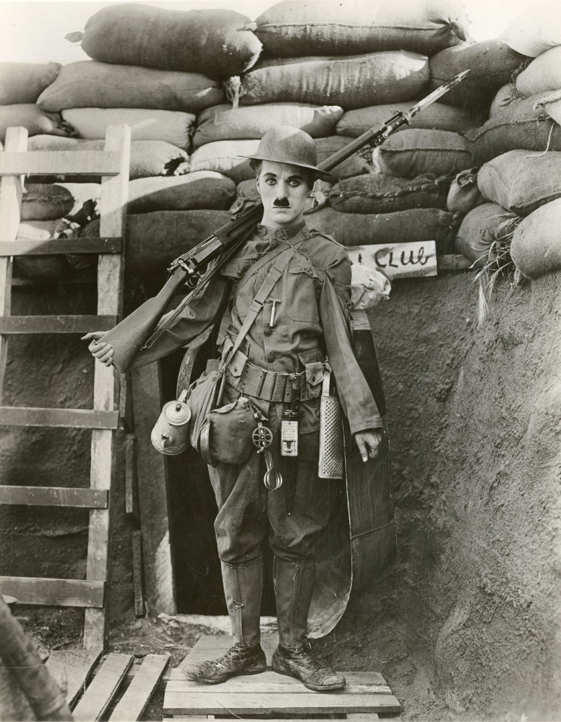 Promotional photograph Charlie Chaplin in the American comedy film Shoulder Arms (1918).